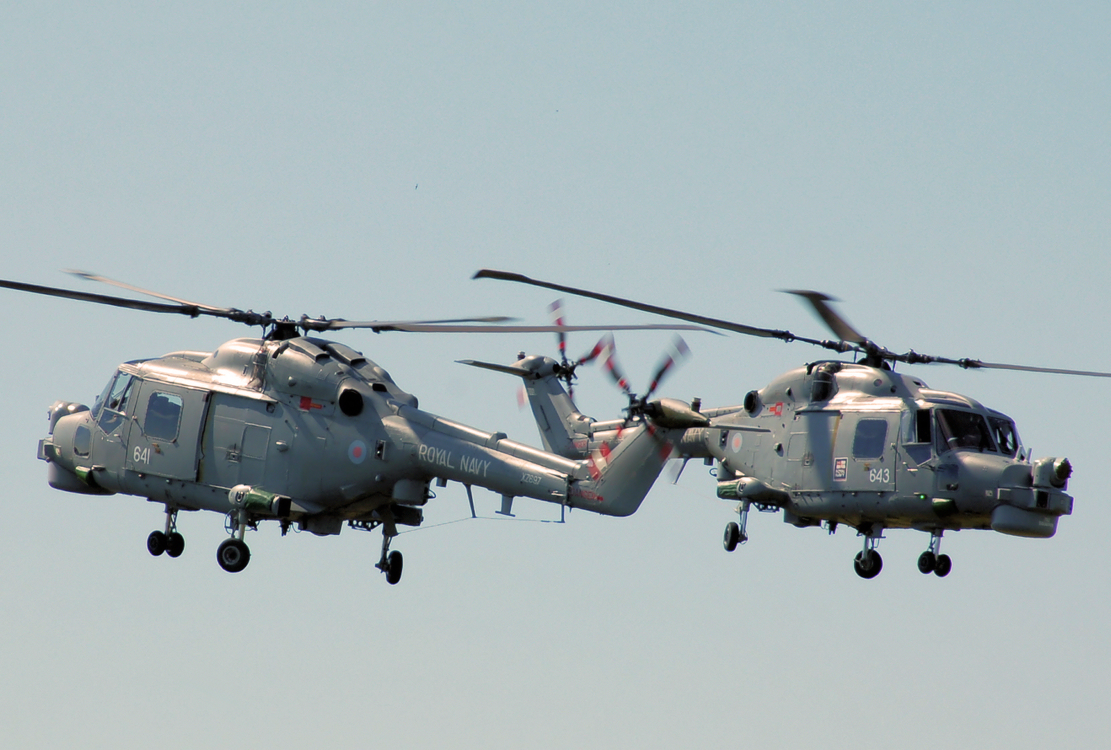 The two Westland Lynx HMA8 WG-13 helicopters of the Royal Navy Black Cats during their display at the Cotswold Air Show at Cotswold Airport, Kemble, Gloucestershire, England. 641 is registration XZ697, 643 is ZD268.